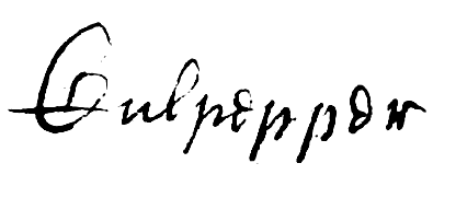 Signature of Nicholas Culpeper (1616-1654), English botanic, herbalist, physician and astrologist.